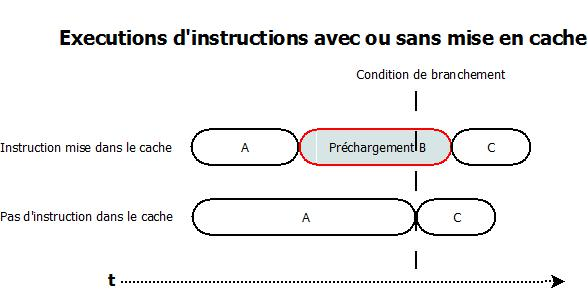 Anomalie causée par spéculation (cache)